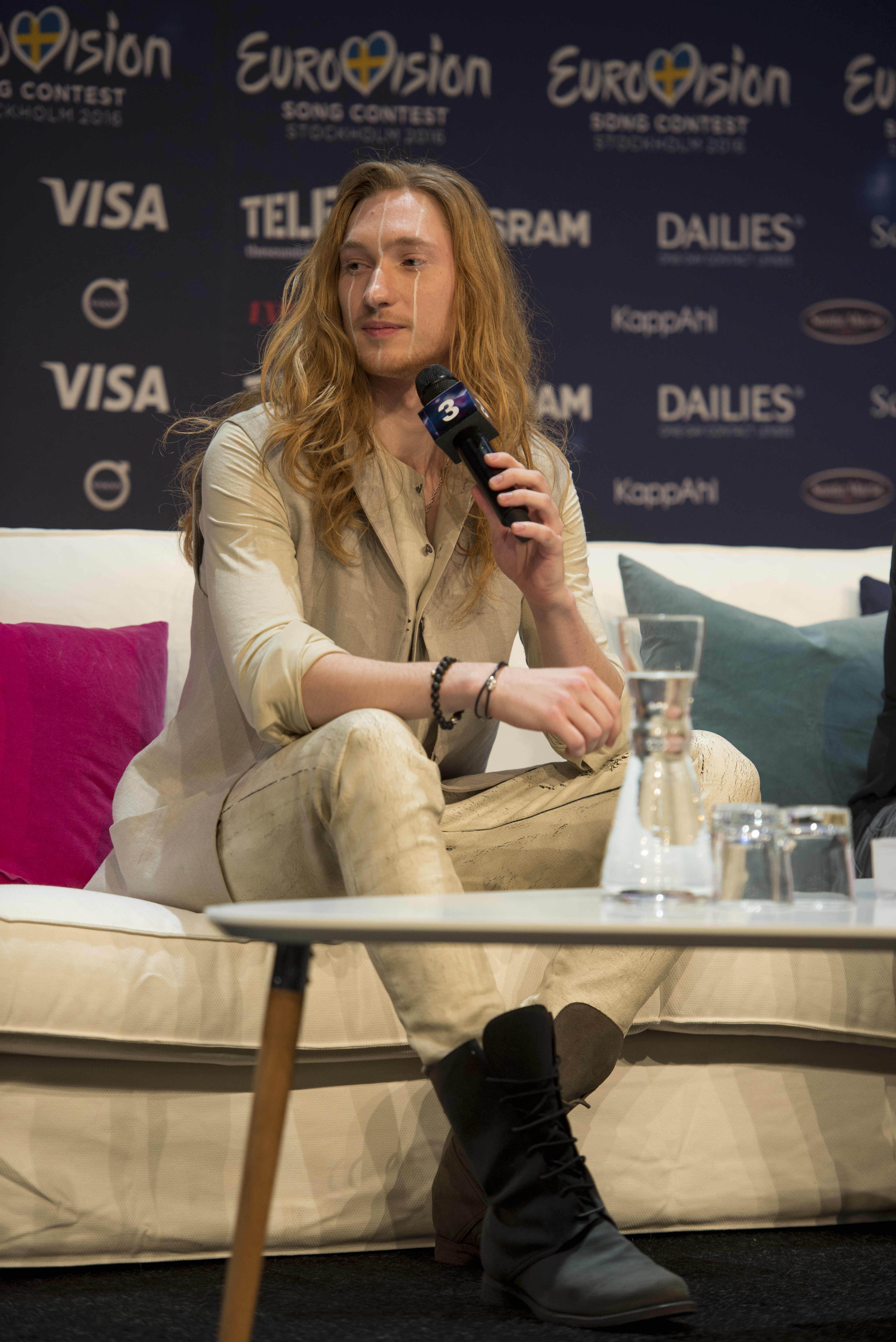 Ivan at a Meet & Greet during the Eurovision Song Contest 2016 in Stockholm. (Help translate this text)